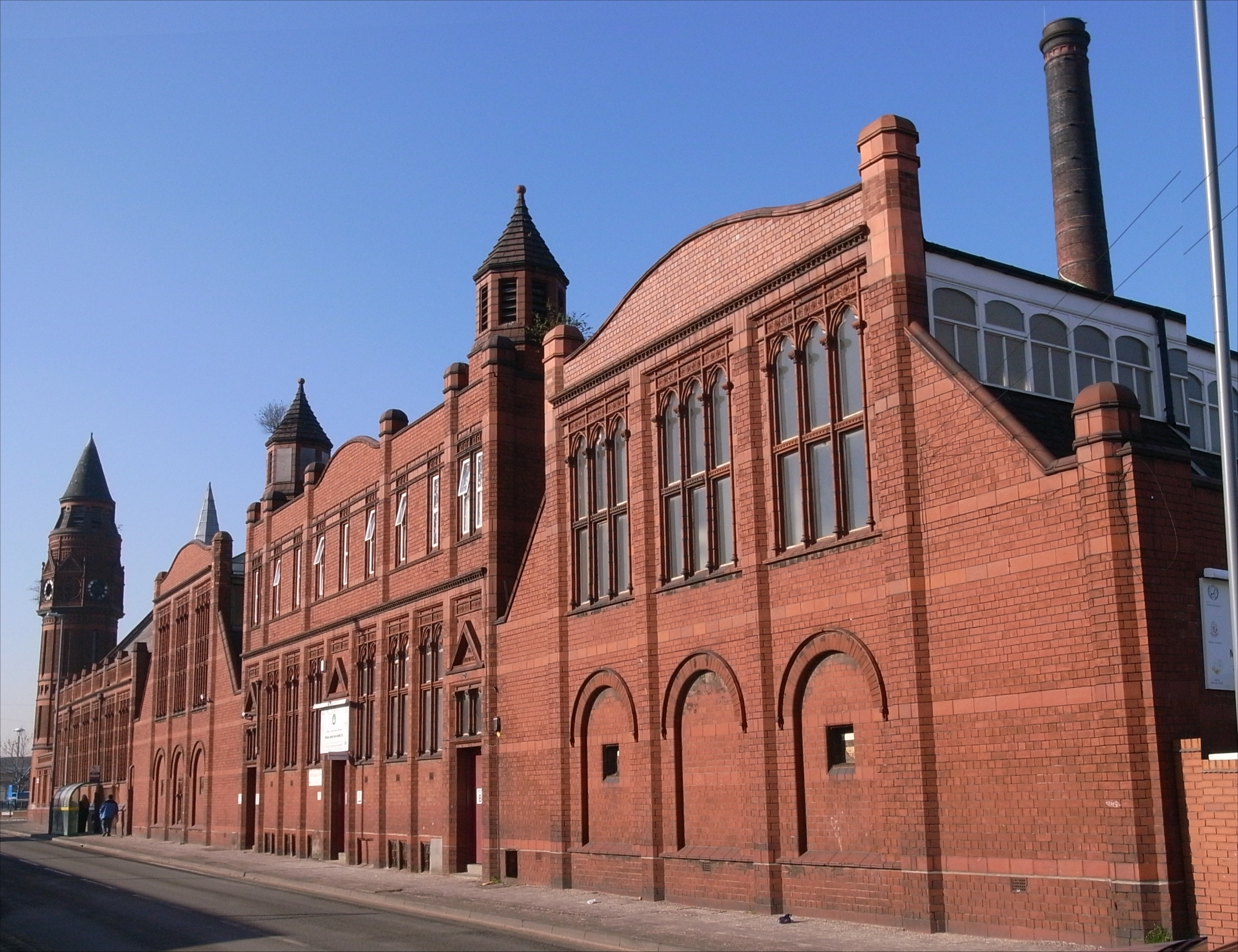 Original public baths end of the Green Lane Public Library and Baths, now Green Lane Masjid, a mosque, on Green Lane, Small Heath, Birmingham, England. Built as a public library and swimming baths, designed by local architects Martin & Chamberlain, 1893-1902.